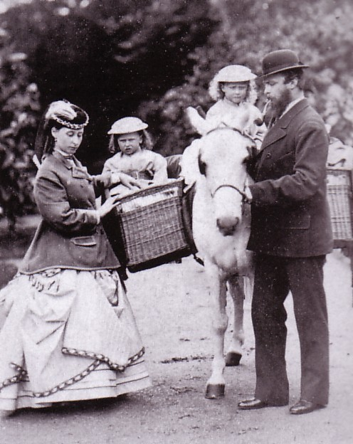 Princess Alice of the United Kingdom with her husband and two eldest children